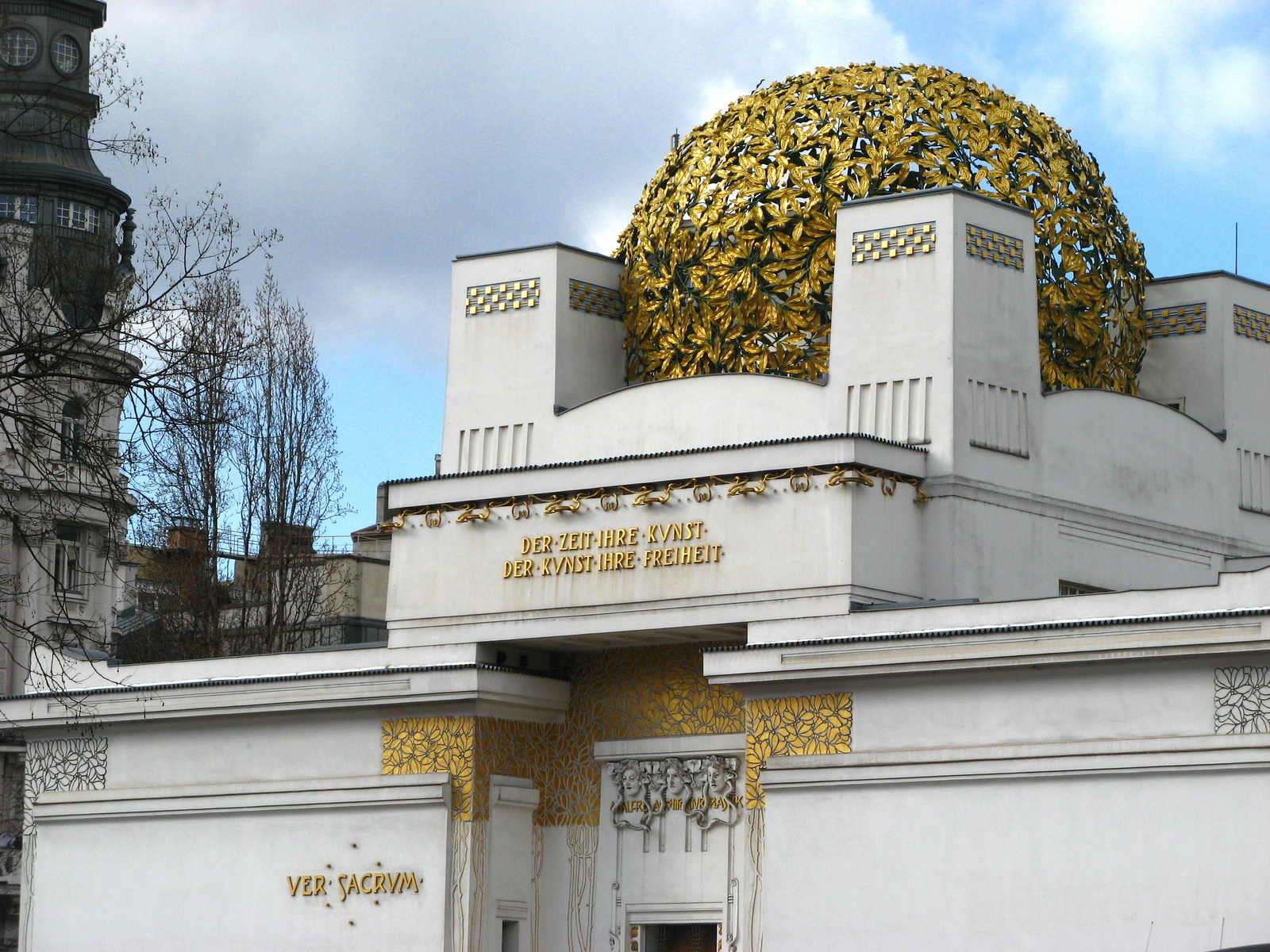 Austria, Vienna, Secession hall